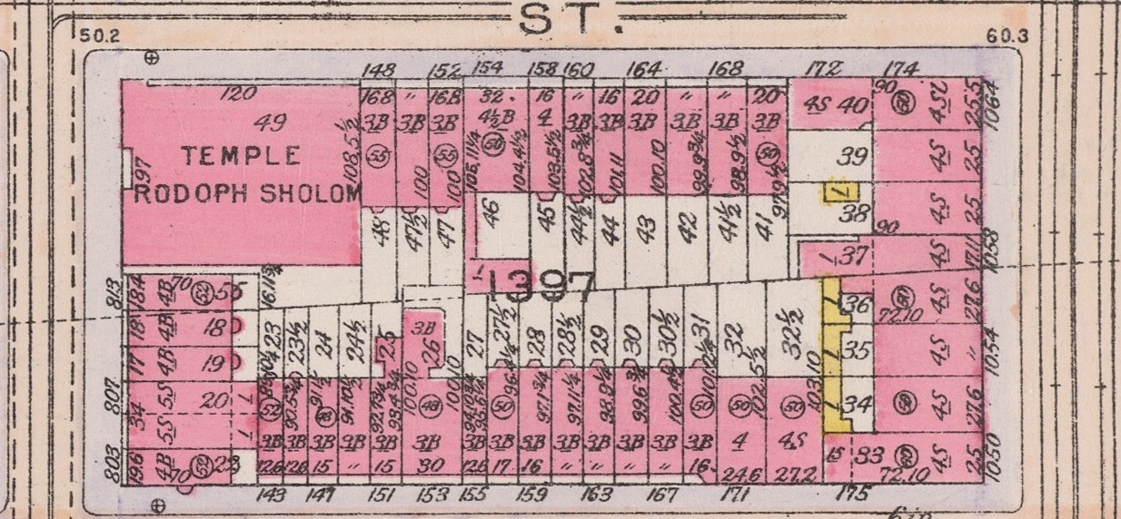 Plate 104 from: Bromley, George W. and Walter S. Atlas of the Borough of Manhattan City of New York. Desk and library edition. (New York: G. W. Bromley and Co., 1916) FOR KEY TO MAP SYMBOLS, CLICK HERE.